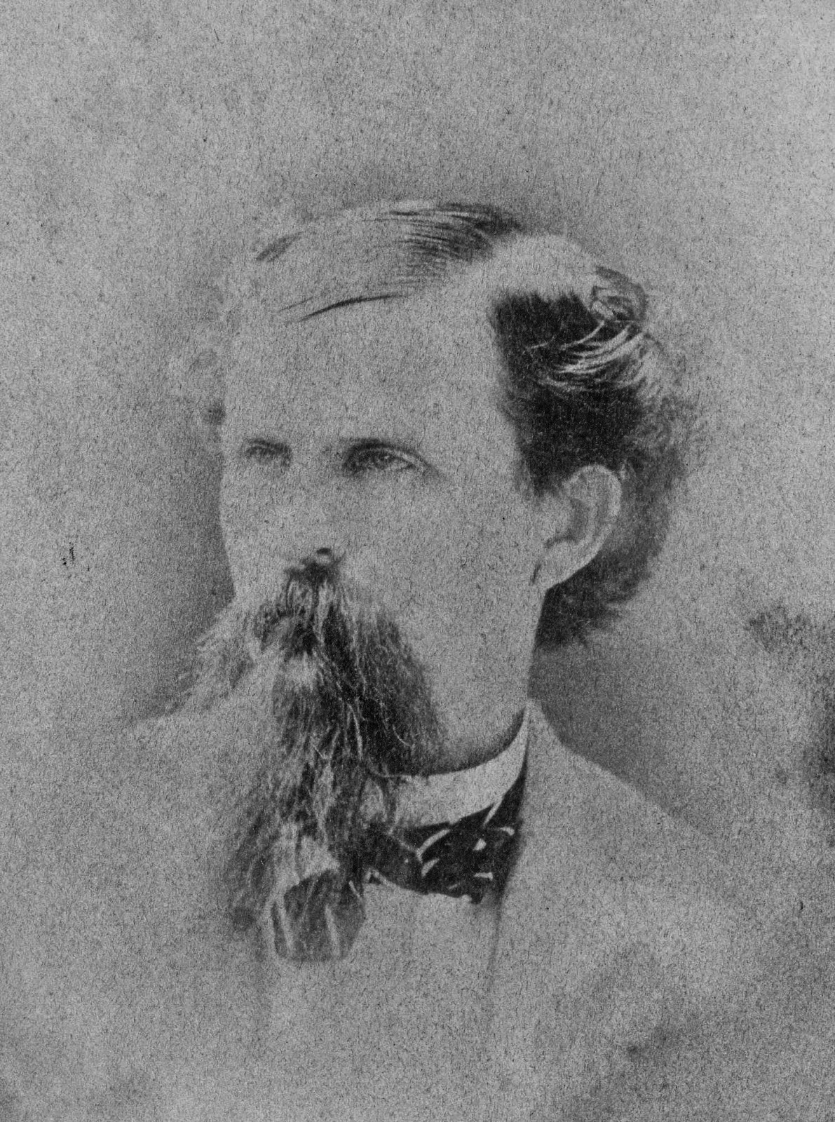 James Tufts, Secretary and acting Governor of Montana Territory.